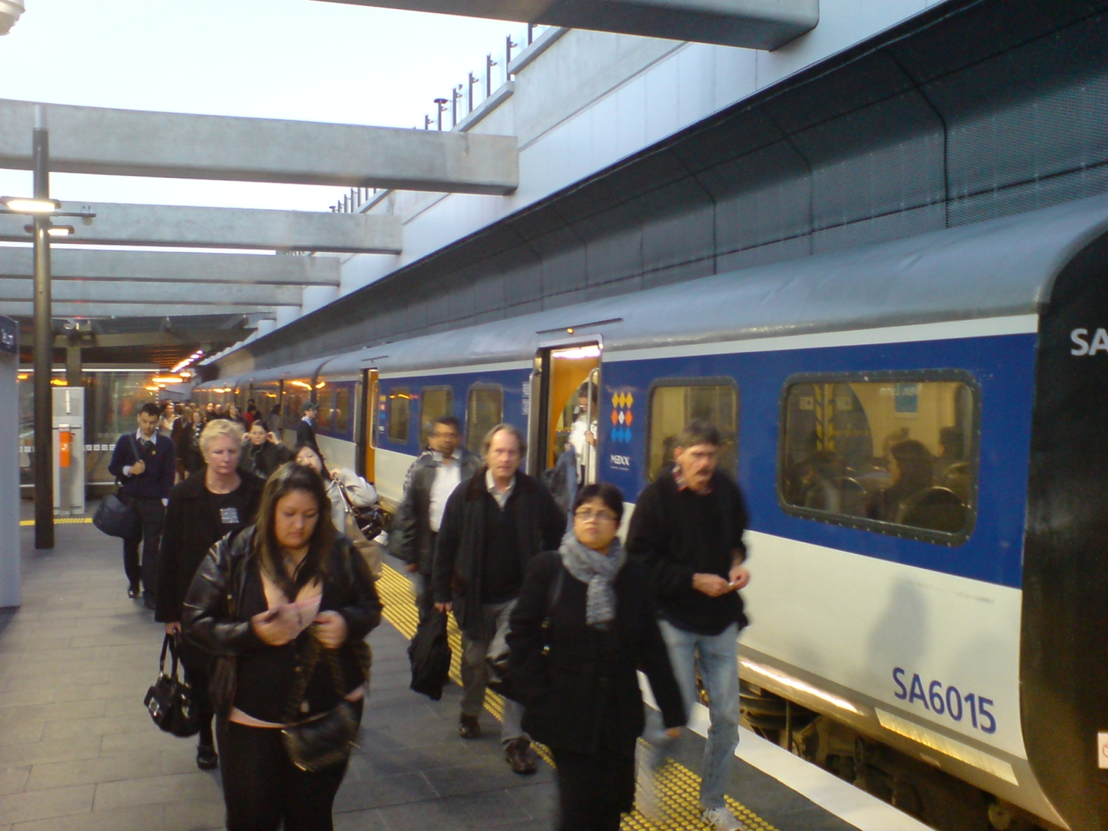 Passengers disembarking at New Lynn Train Station in Auckland, New Zealand. Looking east along the trench at a westbound train just having arrived. Coordinates approximate.